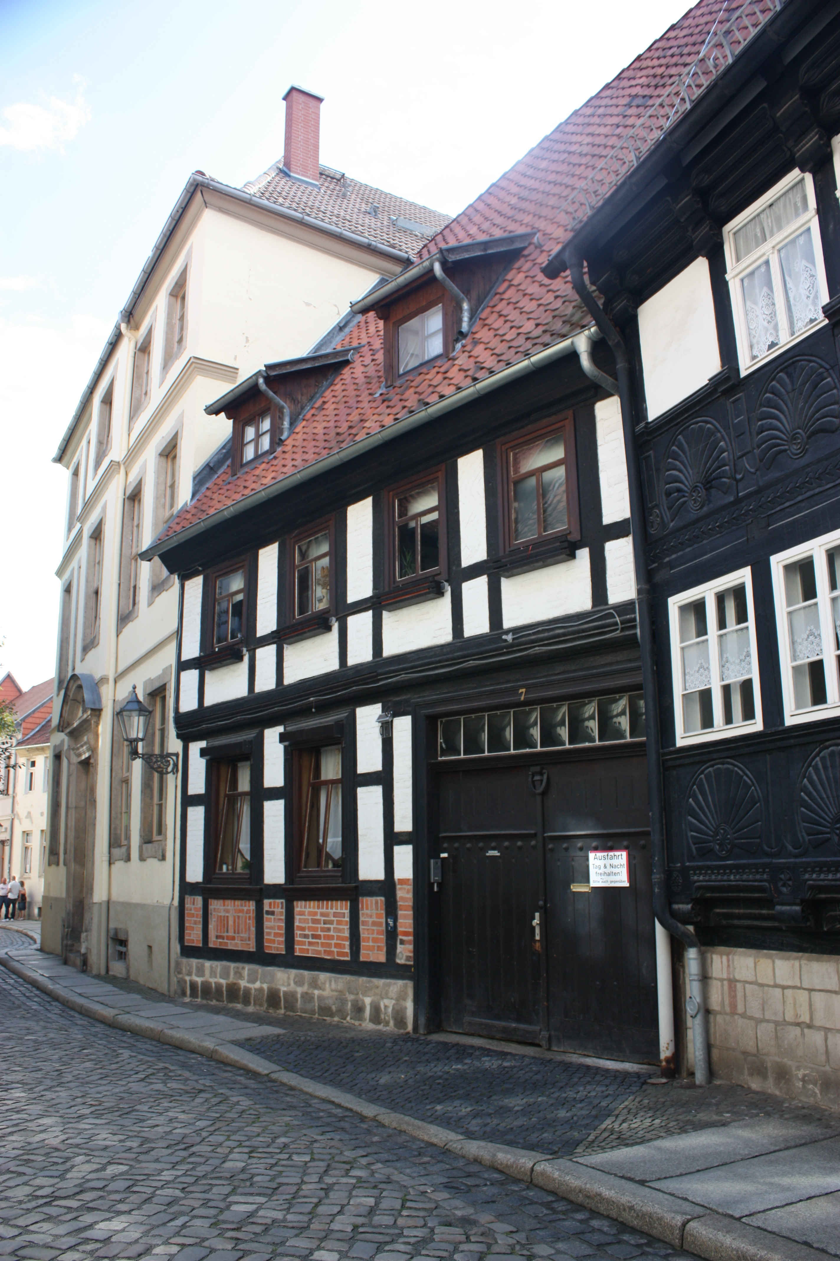 This is a photograph of an architectural monument.It is on the list of cultural monuments of Quedlinburg Hohe Straße 07